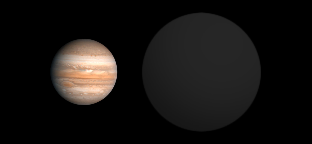 Comparison of best-fit size of the exoplanet WASP-12 b with the Solar System planet Jupiter, as reported in the Open Exoplanet Catalogue[1] as of 2015-11-14. ↑ Open Exoplanet Catalogue (2015-11-14). Retrieved on 2015-11-14.